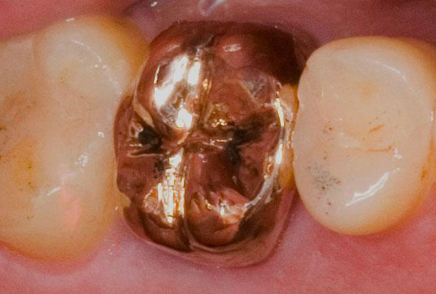 Crown right first-molar PGA21 (Au76.5% Pt 1.0% Cu 10.0% Ag 9.0% Pd 3.0% ) クラウン （歯科） 右上第一大臼歯 白金加金によるもの 咬合面観